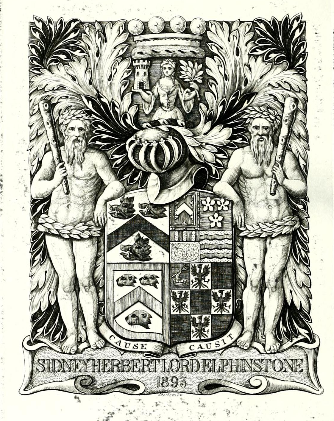 Armorial bookplate of Sidney, Lord Elphinstone, by engraver Charles William Sherborn.